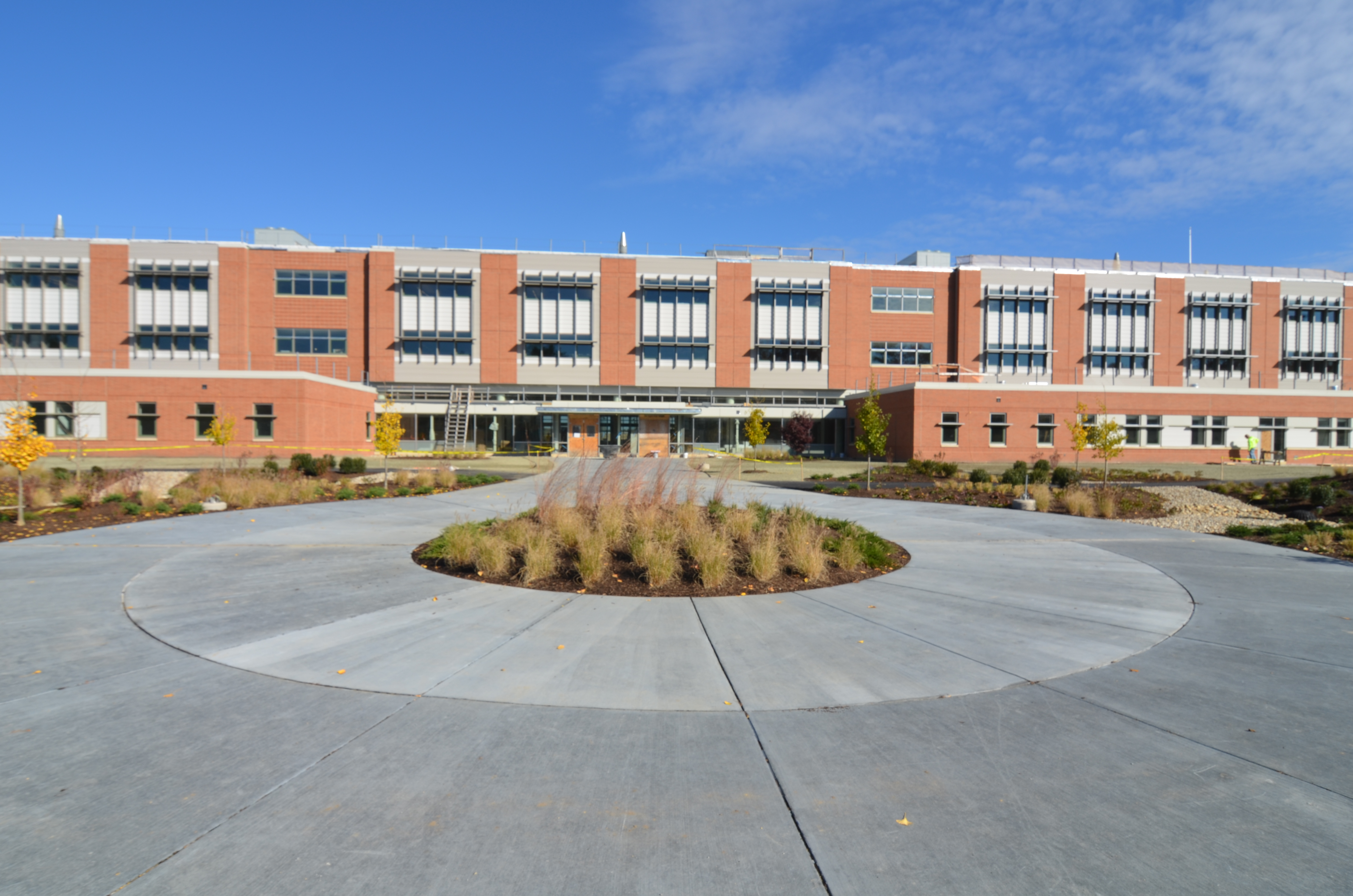 The new CCHS building